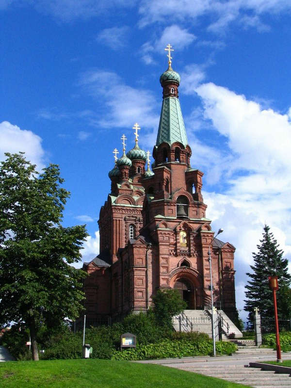 Church Hl. Alexander Nevski und Hl. Nicolas in Tampere, Finland